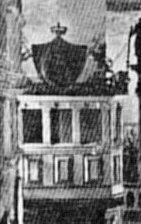 The "king's chair" at Our Lady's church, Trondheim, Norway